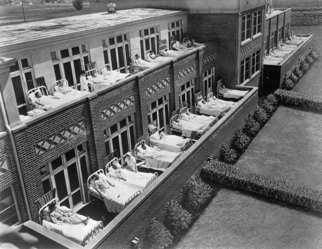 Tuberculosis patients lie in beds on the porch of a building at the Jewish Consumptive Relief Society (J.C.R.S.) sanatorium, 1600 Pierce Street, Lakewood, Colorado. The men lie in rows outside their rooms, and nurses attend to some patients. Taken between 1920 and 1940(?) It is likely that this photograph was first published without a copyright notice, as was usual for photographs at the time (and no copyright notice is visible on the source). If so, this image was never copyrighted. If it was copyrighted, the copyright was never renewed, as an exhaustive search here reveals.